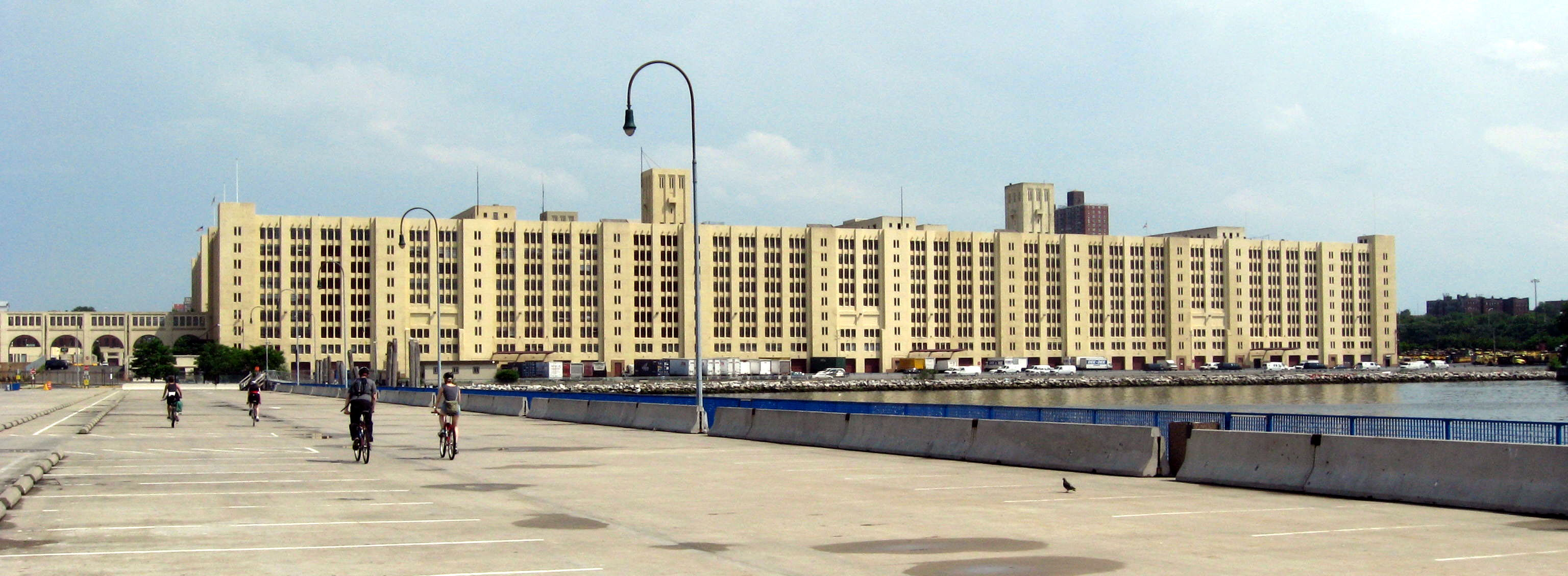 Looking south from 58th Street Pier of Bay Ridge, Brooklyn at Brooklyn Army Terminal on a clearing afternoon of June 15, 2008. See also File:Brooklyn Army Terminal Atrium Building B2.jpg.